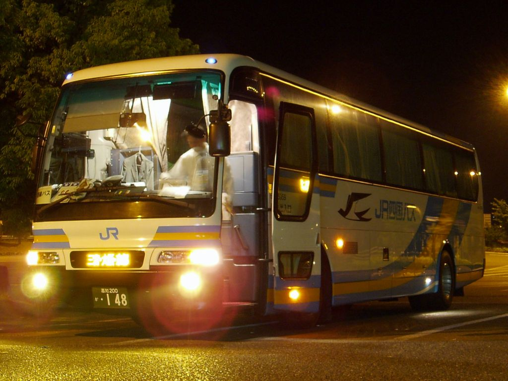 JR Shikoku Bus "Kochi Express" 644-5959 Mitsubishi KL-MS86MP at Yoshinogawa Service Area